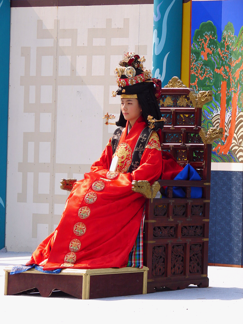 Royal Wedding Ceremony. Reenactment of King Gojong and Empress Myeongseong’s (Queen Min) Royal Wedding Ceremony that took place on the grounds of Unhyeon Palace on March 21, 1866. Unhyeon Palace (운현궁) is the former Korean royal residence of Prince Regent Daewon-gun, ruler of Korea during the Joseon Dynasty in the 19th century, and father of Emperor Gojong. This reenactment takes place in the spring and fall each year.